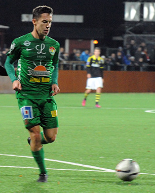 Predrag Randelovic